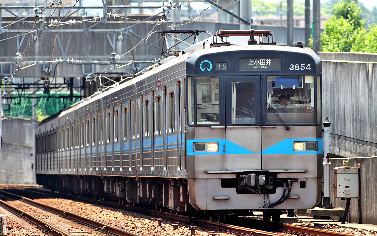 Nagoya Municipal Subway 3050 series EMU, at Kamiotai Sta.